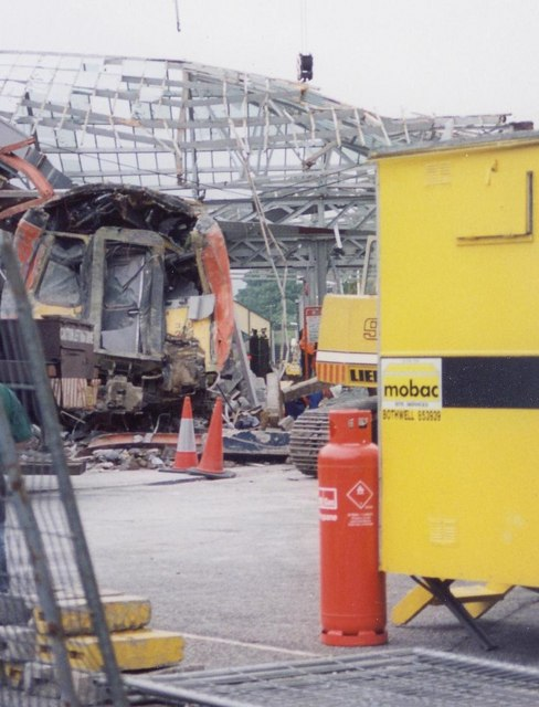 The aftermath of a train crash at Largs.